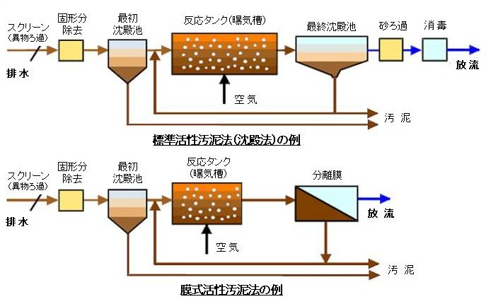 Comparing membrane bioreactor and activated sludge process